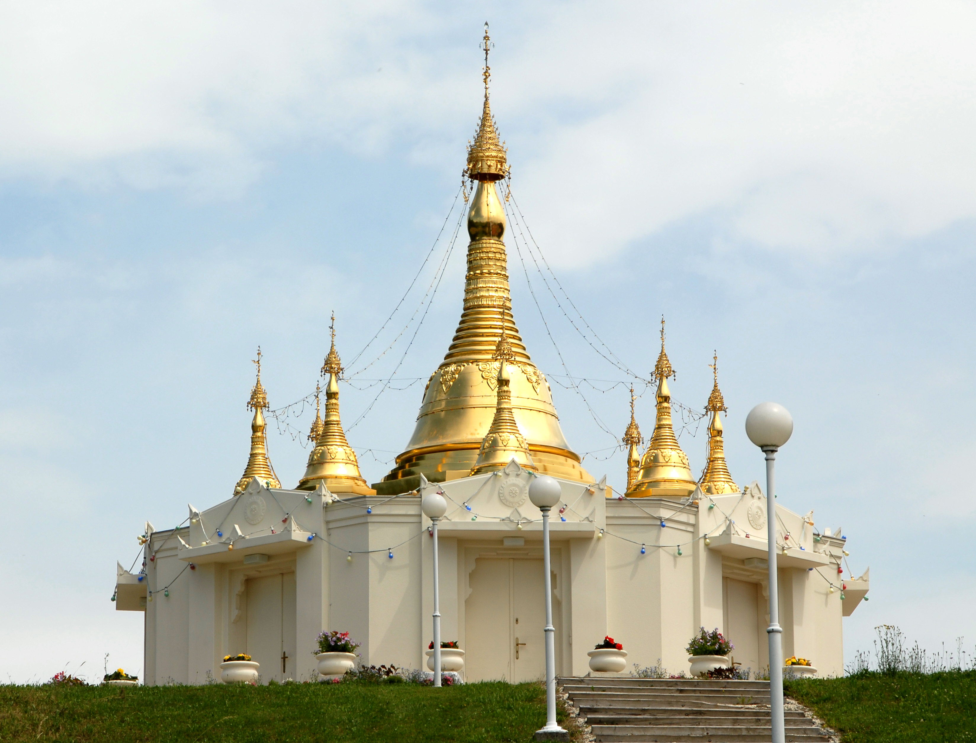 International Meditation Center of Austria at Saint Michael on the Gurk in the community Poggersdorf, district Klagenfurt-Land, Carinthia, Austria